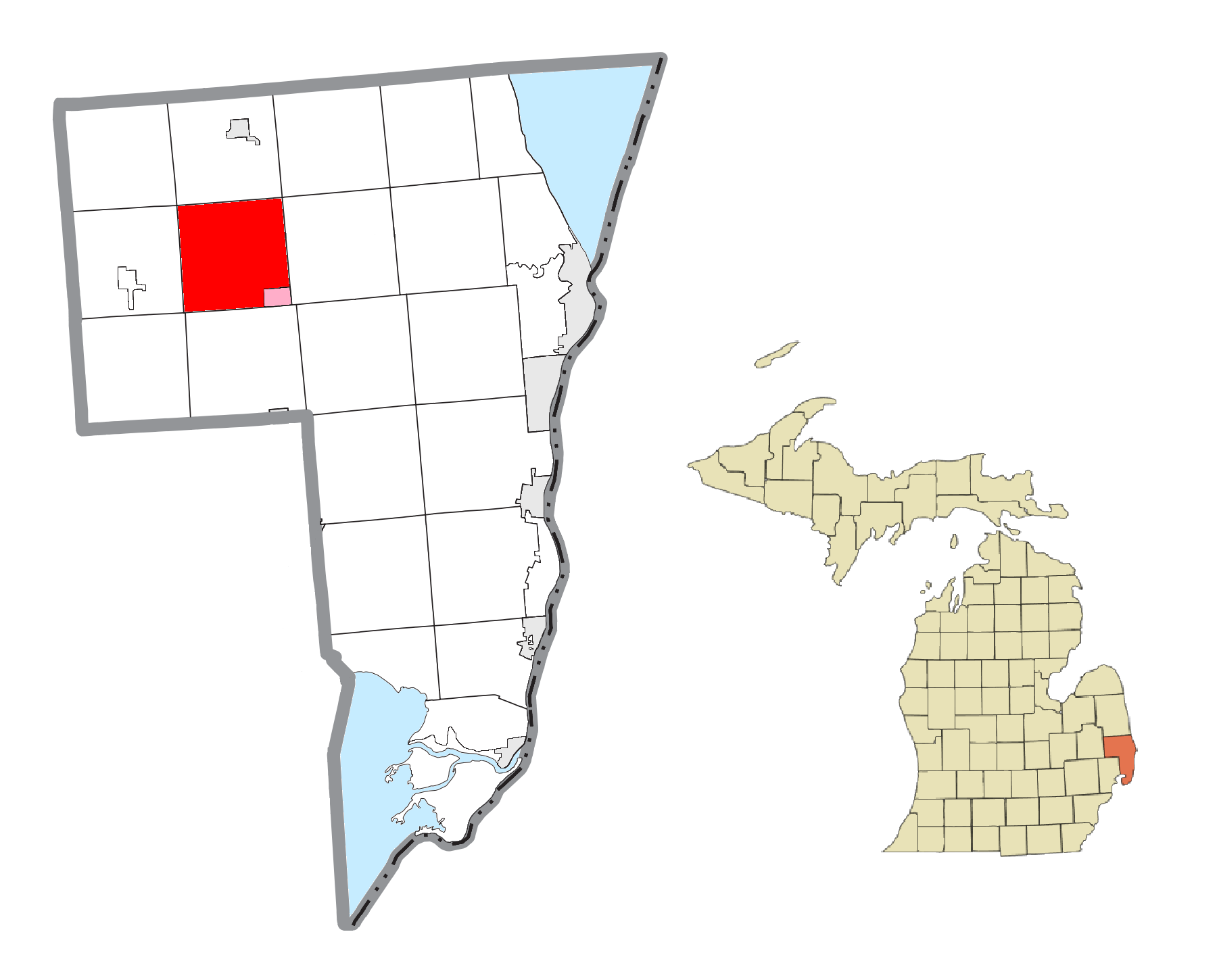 Emmett Township (St. Clair), MI